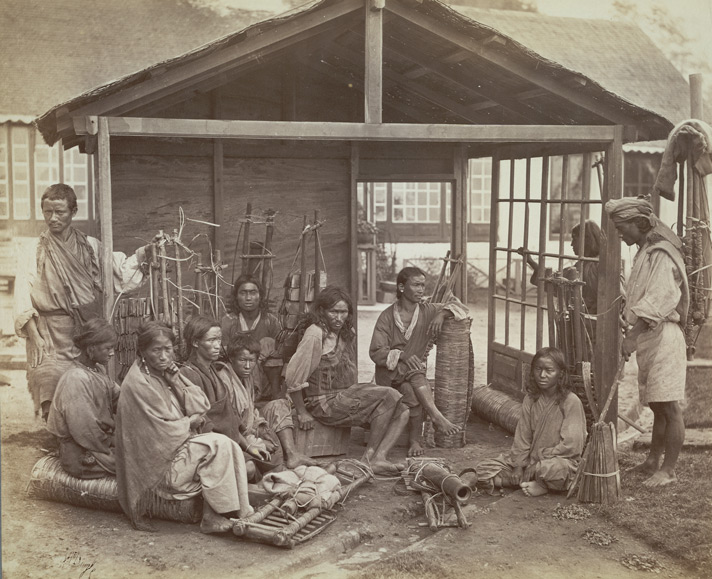 Photograph of Lepchas at Darjeeling, from an Album of Miscellaneous views in India, taken by John H.Doyle in the 1870s. The Lepcha people are the aboriginal inhabitants of Sikkim (which was the Kingdom of Sikkim till 1975, when it became a part of India), situated in between Nepal and Bhutan. The Lepchas have become a minority in their own homeland. Their shamanist religion and lifestyle has been a source of fascination to anthropologists. Their language is unmistakably a member of the Tibeto-Burman language family, but its exact position within the group is uncertain. This is a group portrait of Lepcha people gathered in an open-sided hut at Darjiling.